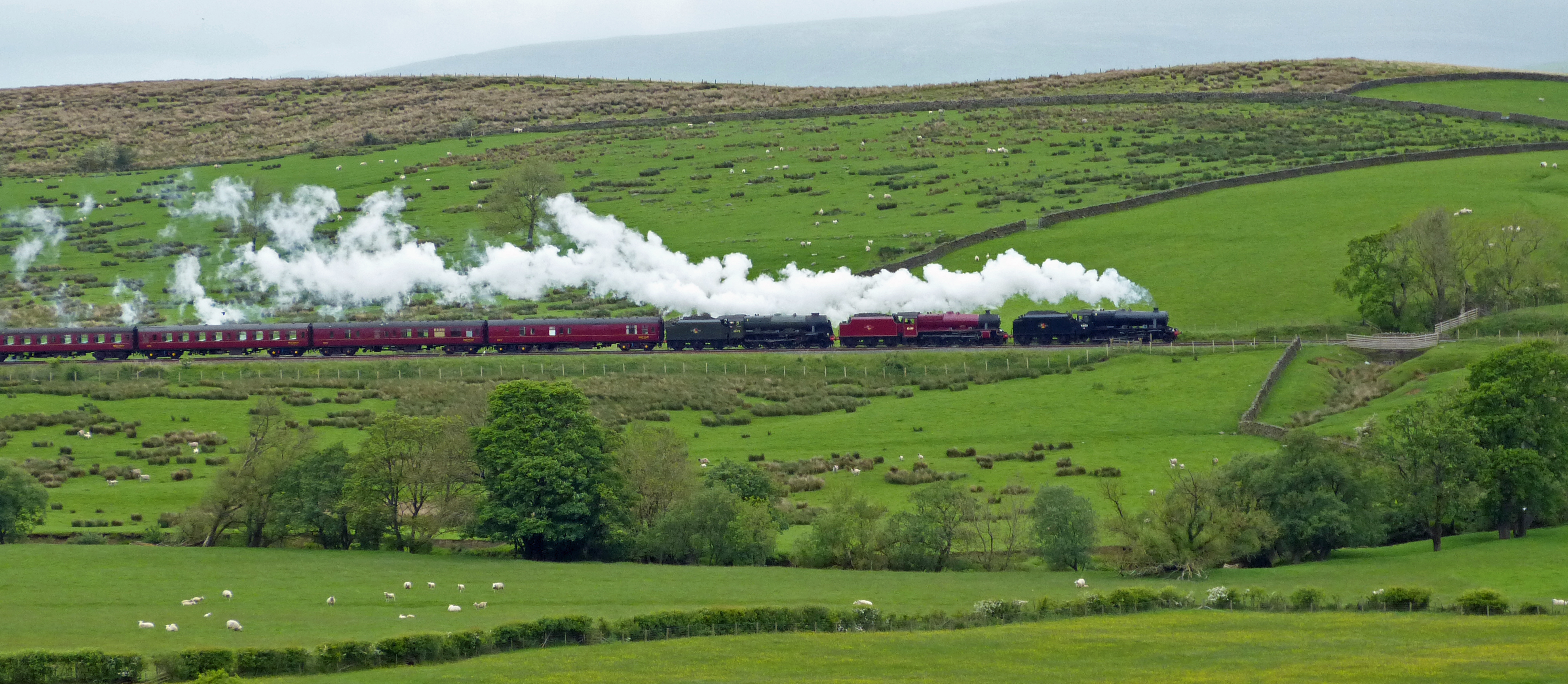 These three LMS locos were heading to mid-Norfolk for a west coast railways themed event. Despite a suggestion of a diesel being involved it was a triple-headed steam only movement. Not an expert, I just like steam trains in the landscape, but this is probably a rare event. Mind you they'll probably repeat the spectacle when they head back to Carnforth.